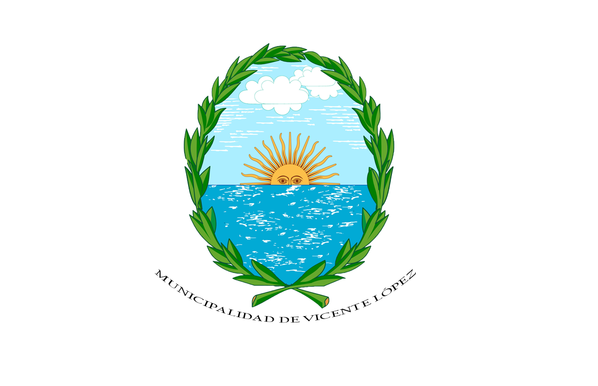 Vicente Lopez flag